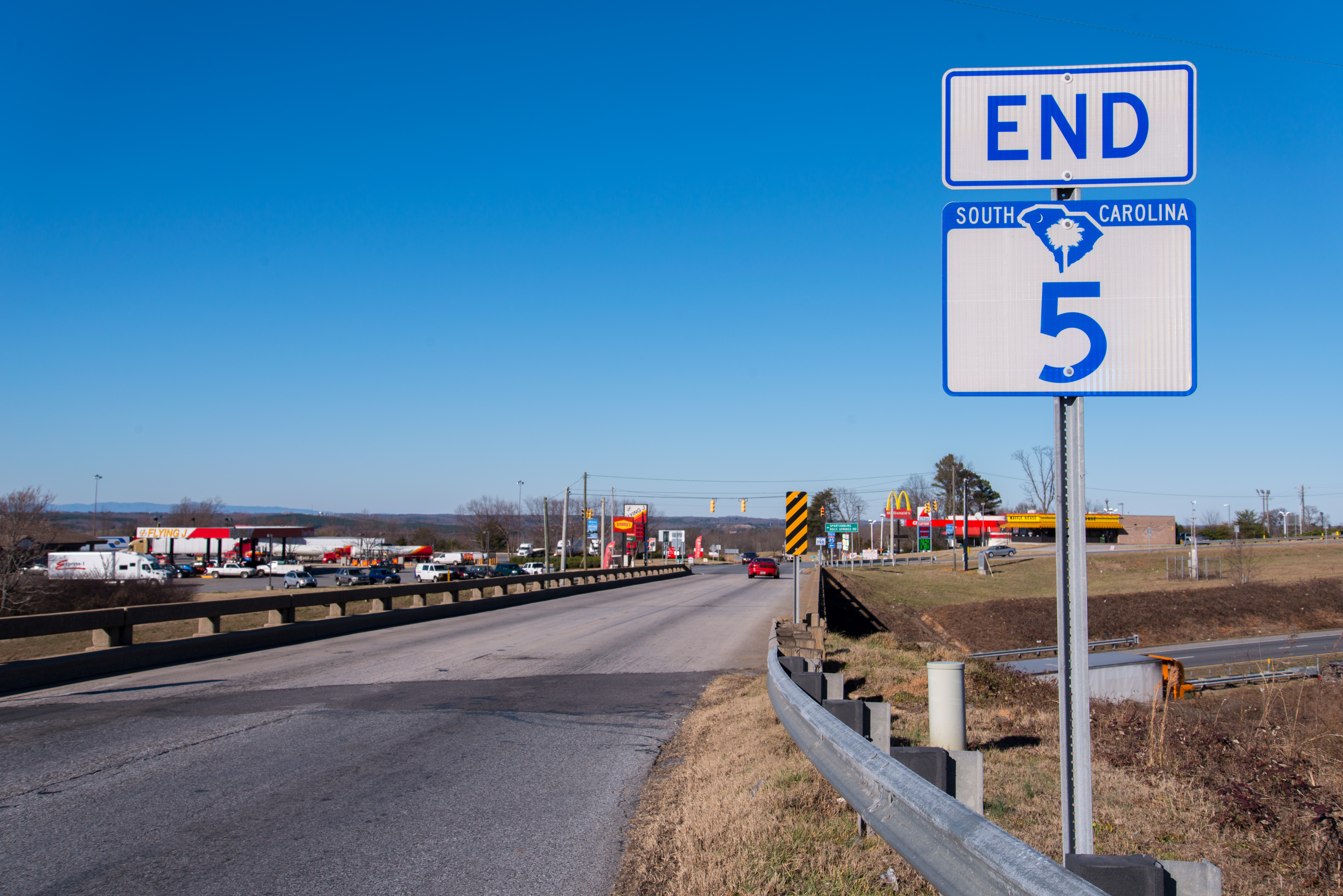 North end of SC 5 in Blacksburg, South Carolina, at the bridge over Interstate 85.